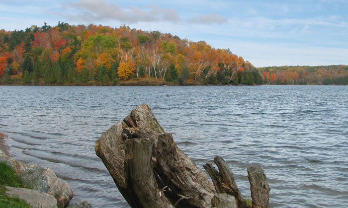 Meech Lake, in Gatineau park, Chelsea, Quebec, Canada.